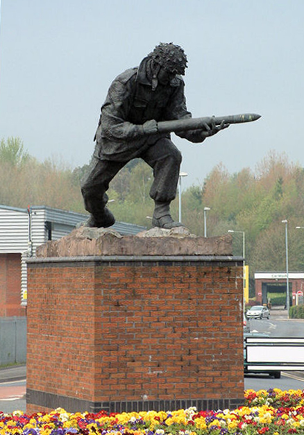 Statue of John Baskeyfield VC at Festival park, Etruria, Stoke-on-Trent. By sculptors Steven Whyte and Michael Talbot.